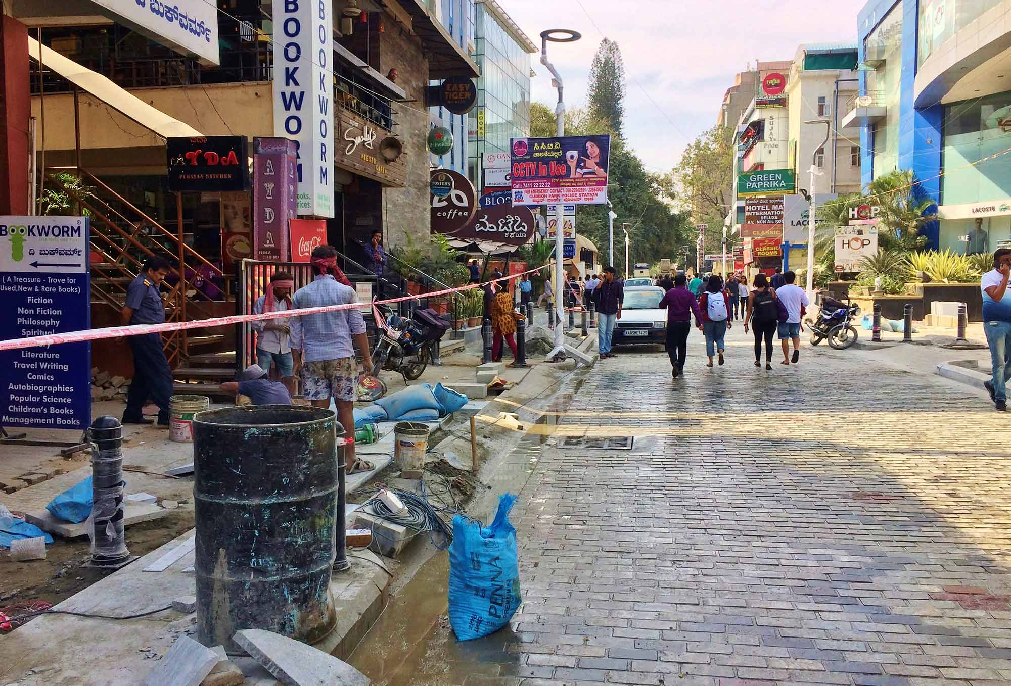 Photo of the redevelopment of Church Street, Bangalore by the BBMP under the TenderSURE project. This is the first time granite cobblestones have been used to pave a road in Bangalore.